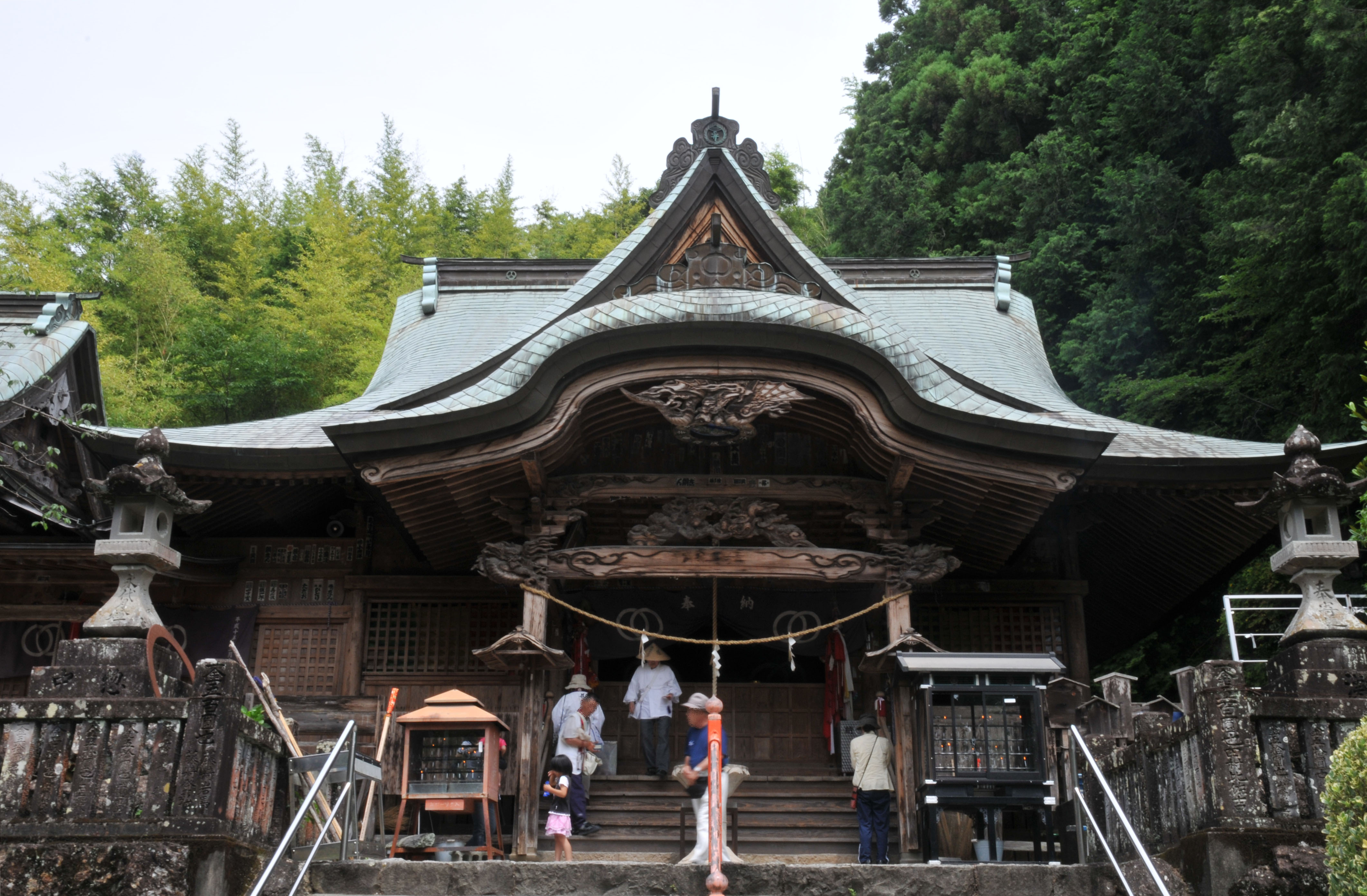 Main temple, Kiyotaki-ji